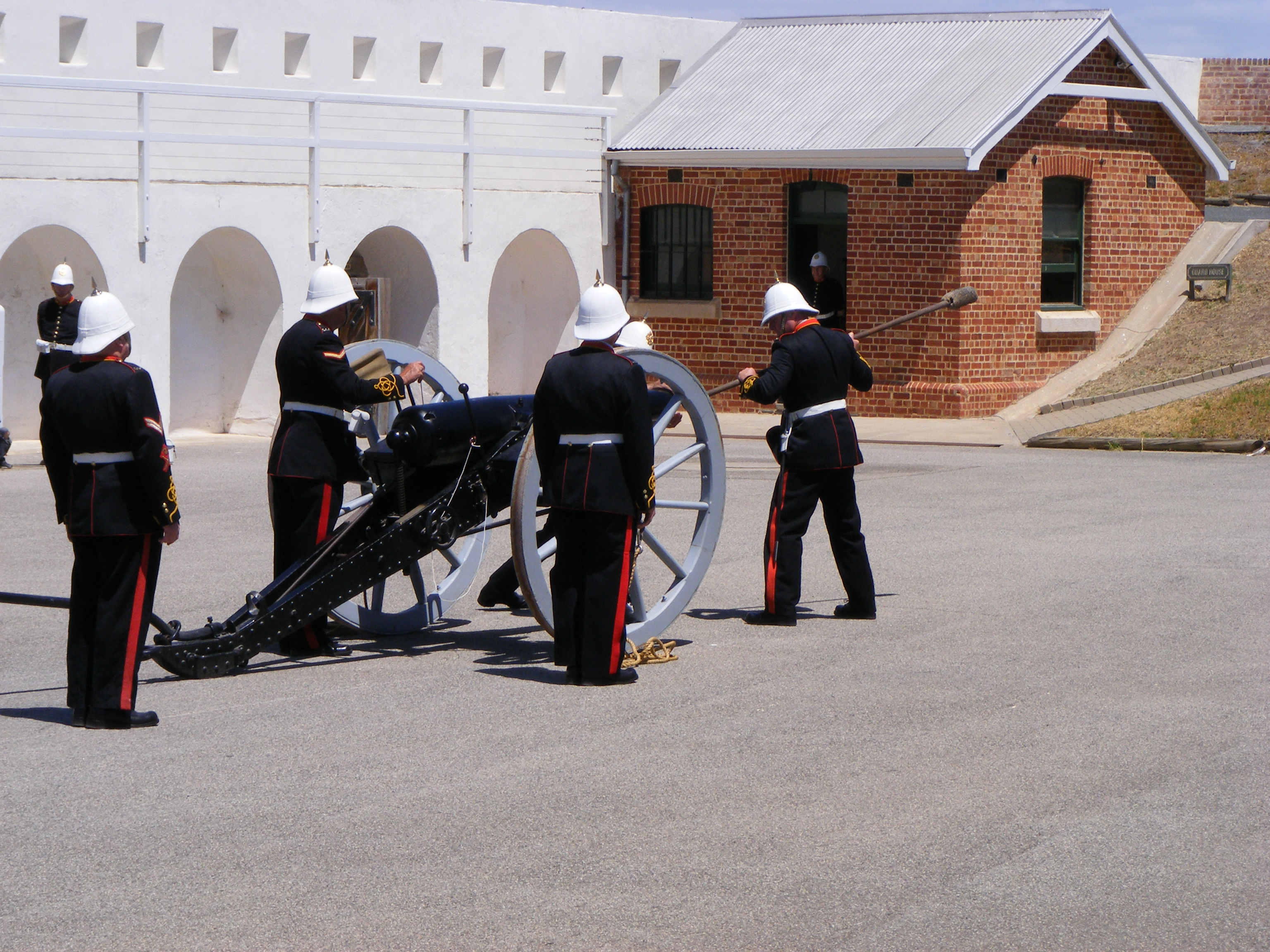 16 Pounder muzzle loading cannon being readied for a demonstration blank firing at Ft Glanville, Adelaide, South Australia